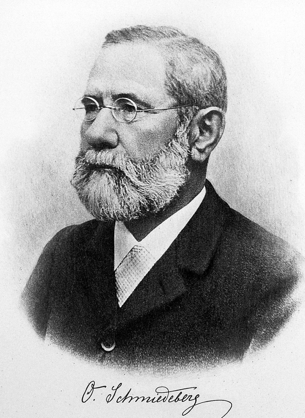 geb. 10. Oktober 1838 auf Gut Laidsen/Kurland (Laidze, Lettland) gest. 12. Juli 1921 in Baden-Baden